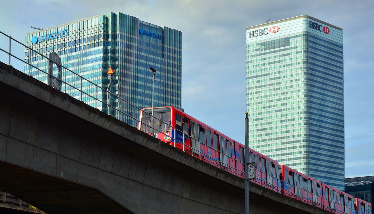 World HQ's of Barclays and HSBC banks by architects HOK (2005) and Foster + Partners (2002) respectively. DLR doesn't stand for Dishonest Libor Rigging , but for Docklands Light Railway: a rail transport system serving London's Docklands district. Poplar, London Borough of Tower Hamlets. ( CC BY-SA - credit: Photo by George Rex.)